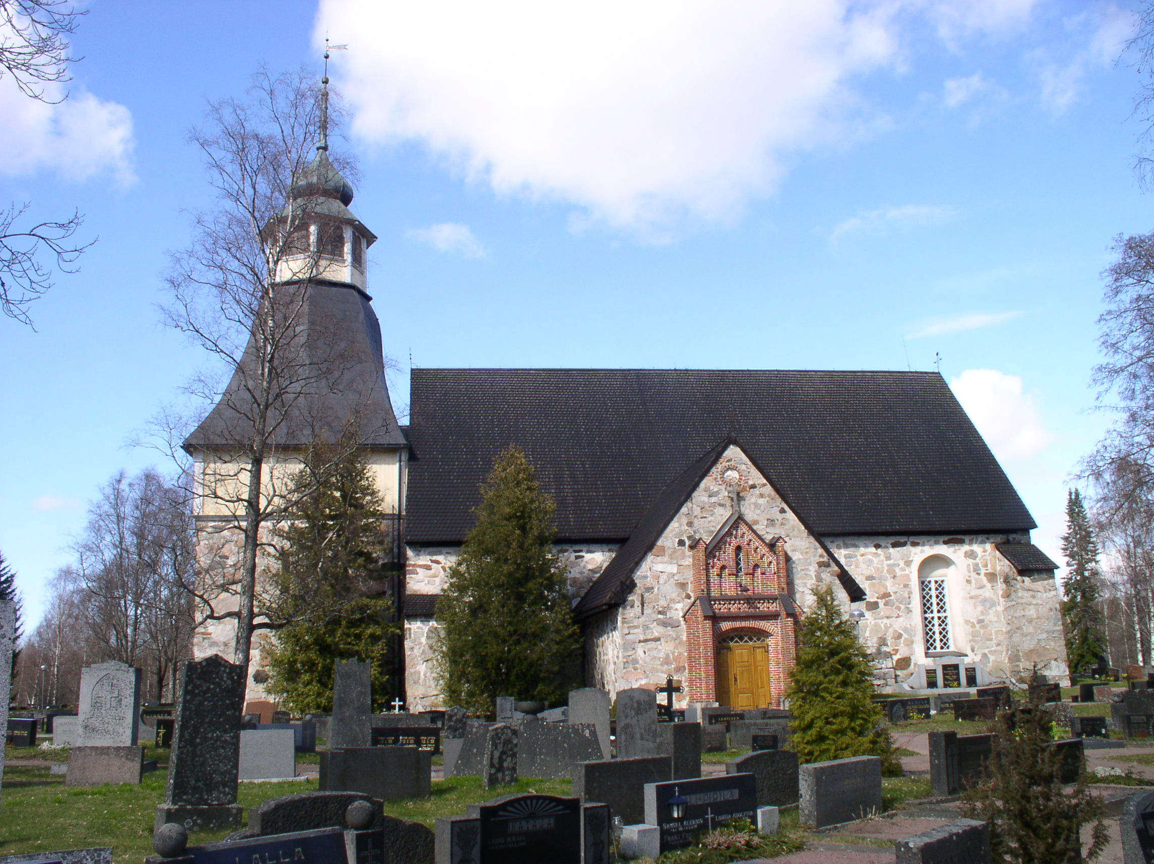 Kalanti church in Uusikaupunki (previously Kalanti), Finland.